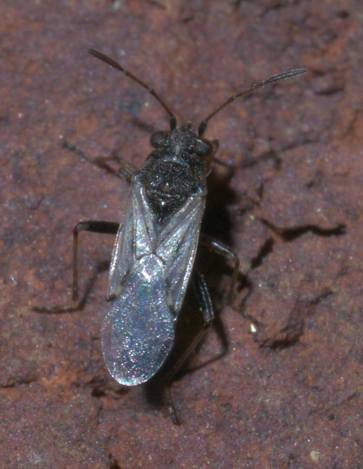 Xyonysius, Family: Seed Bugs, Size: 3.3 mm, ID Confidence: 98